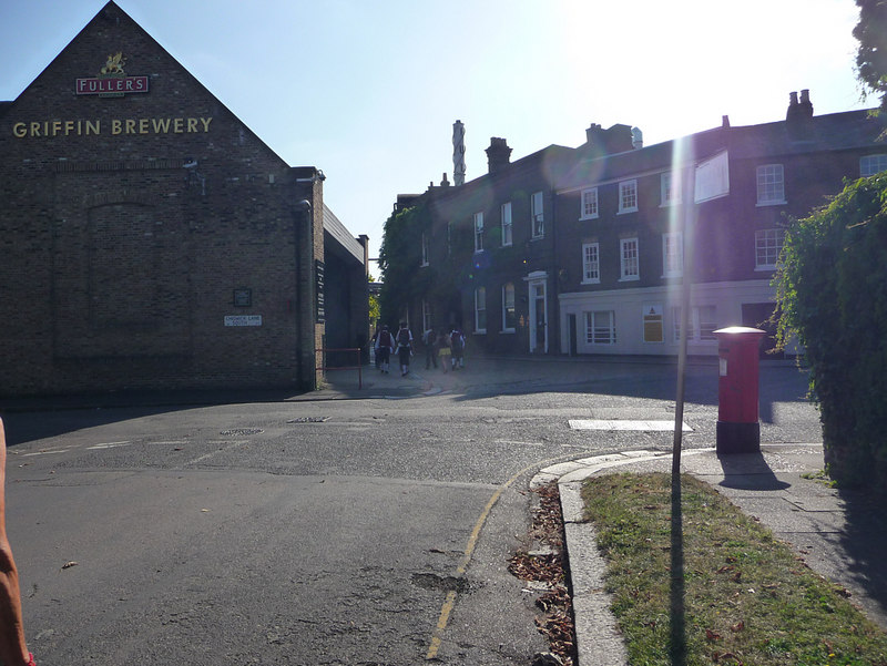 Fuller's Griffin Brewery, Chiswick Lane South W4